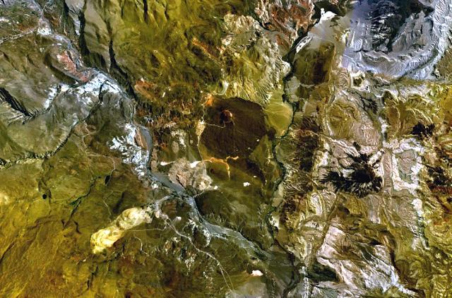 The small stratovolcano surrounded by an apron of lava flows in the center of this NASA Landsat image (with north to the top) is Cochiquito volcano, Argentina. The alkaline basaltic volcano has eight satellitic cones and lies near the junction of the Río Barrancas (cutting diagonally across the image from the upper left) and the Río Grande (right-center). Lava flows from the Sillanegra pyroclastic cone complex can be seen across the Río Grande below and to the right of Cochiquito.